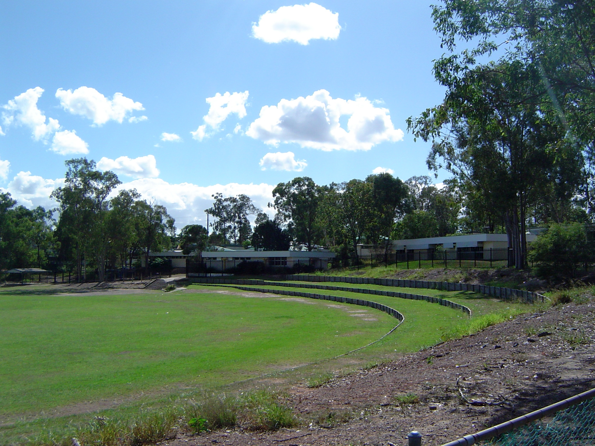 Photo of oval and school buildings at Browns Plains State School, Browns Plains, City of Logan, Queensland, Australia.